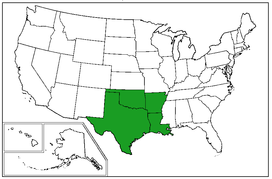 A map of the United States Census Bureau Region 3, Division 7, "West South Central", consisting of the states of Arkansas, Louisiana, Oklahoma, and Texas.